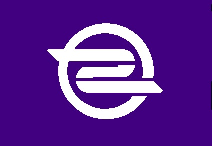 Flag of Tanagura Fukushima